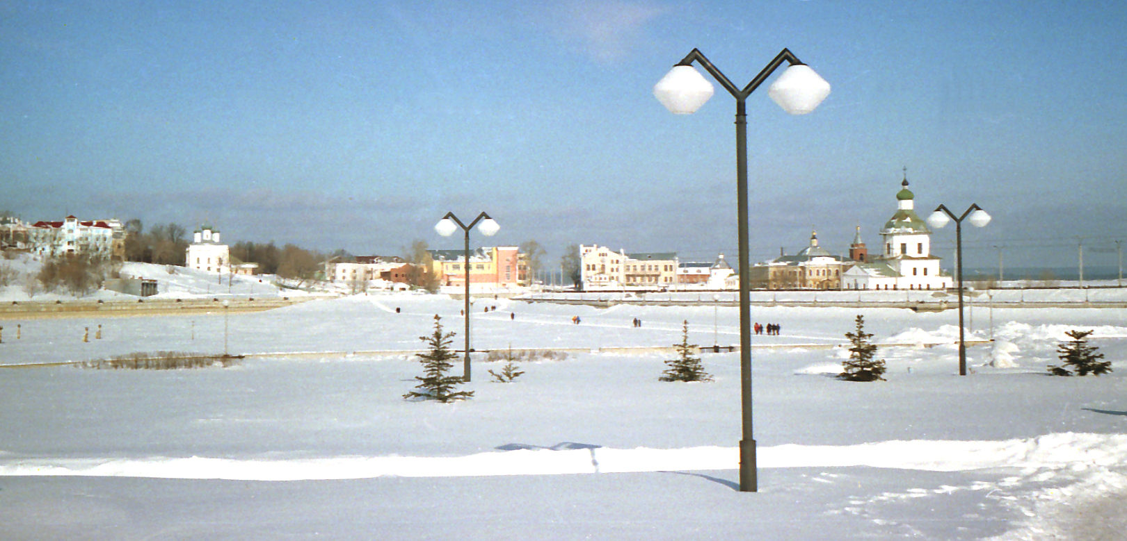 Path lighting. Winter bay at the centre of city, Cheboksary